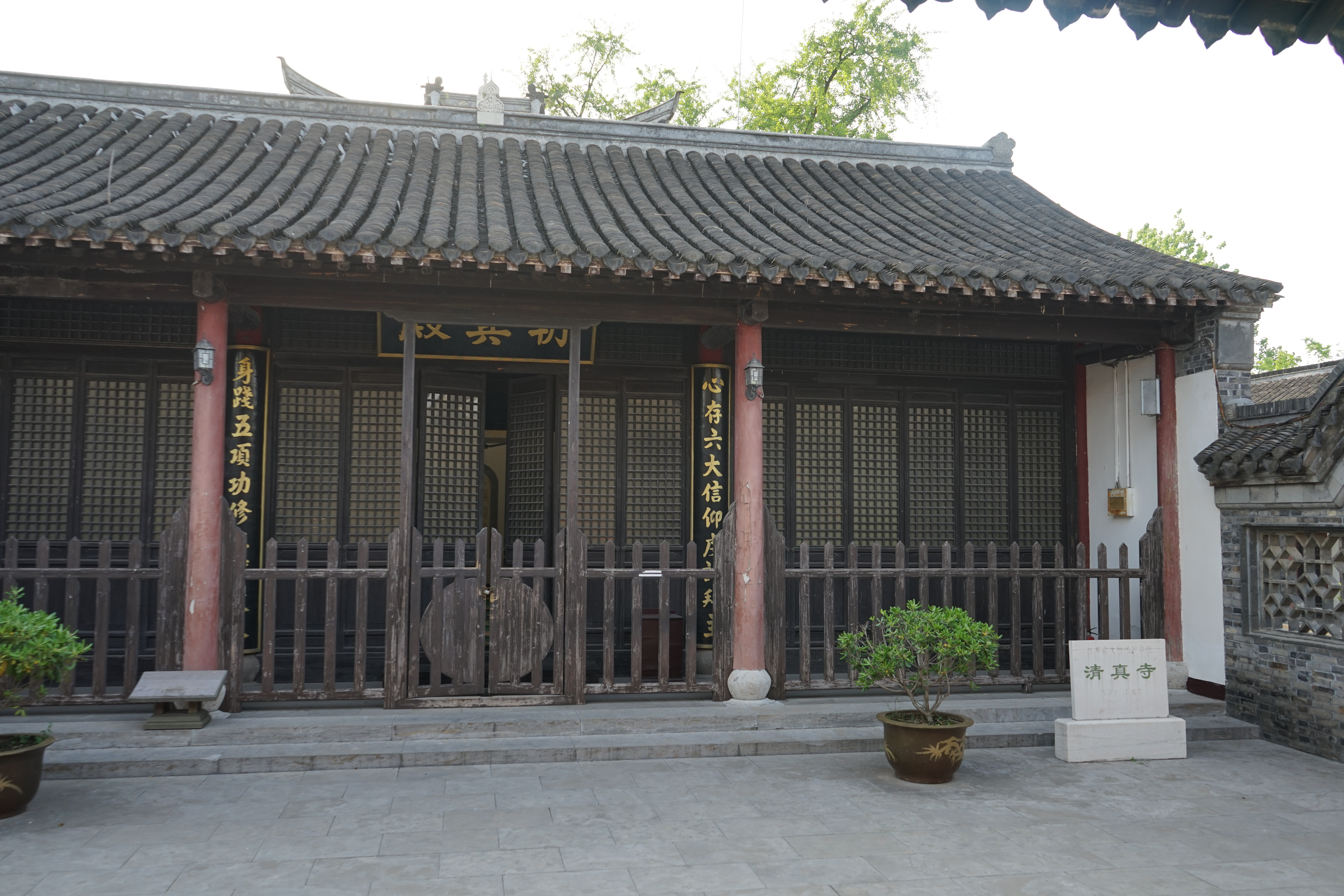 Lingtang Ancient Mosque: Worship Hall (朝真殿，亦称礼拜殿) , is a place for Muslims to worship. It's the main building of the mosque.